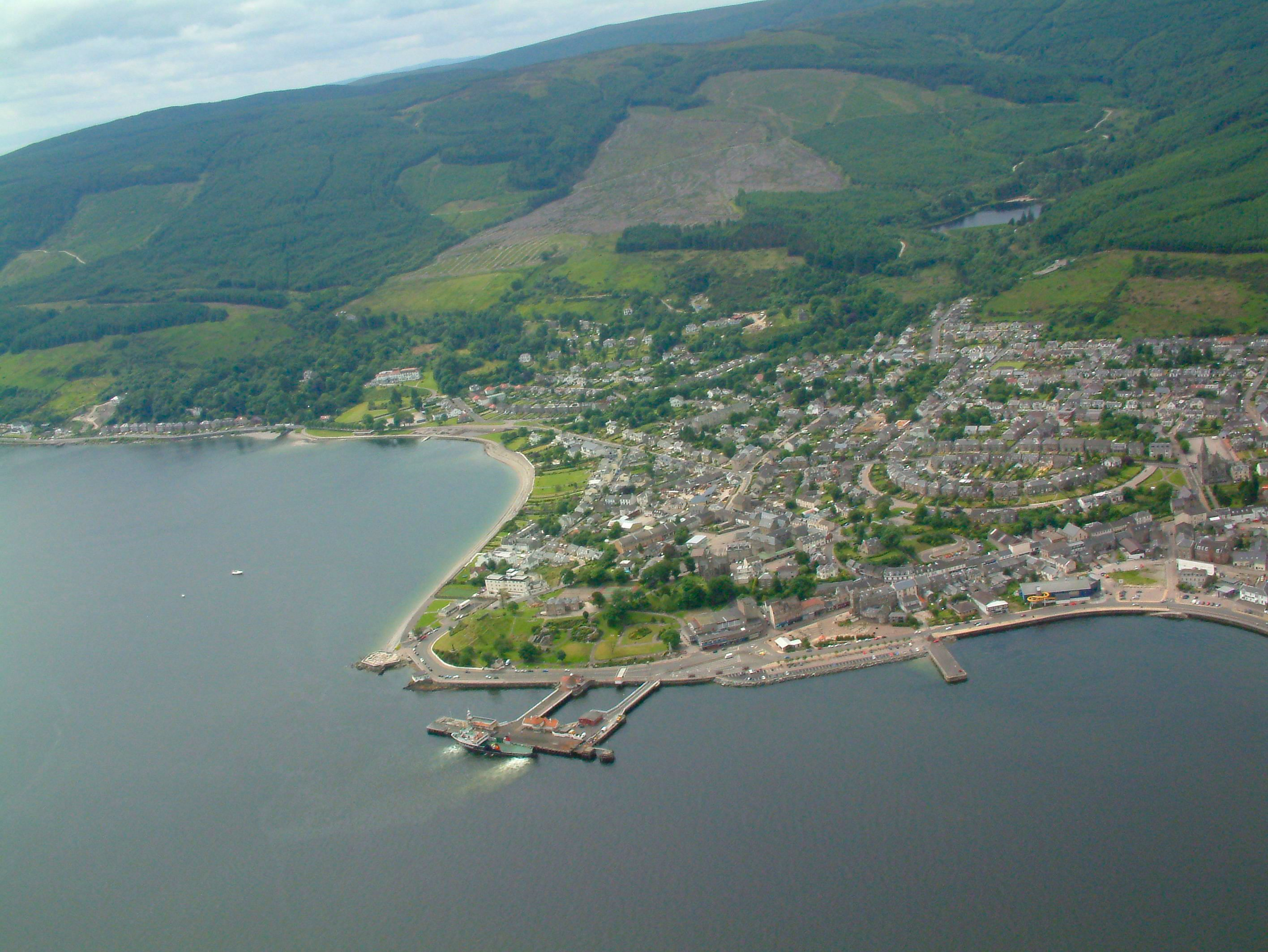 Dunoon from above the Firth of Clyde Side thrusters working on the vessel coming in to the pier.